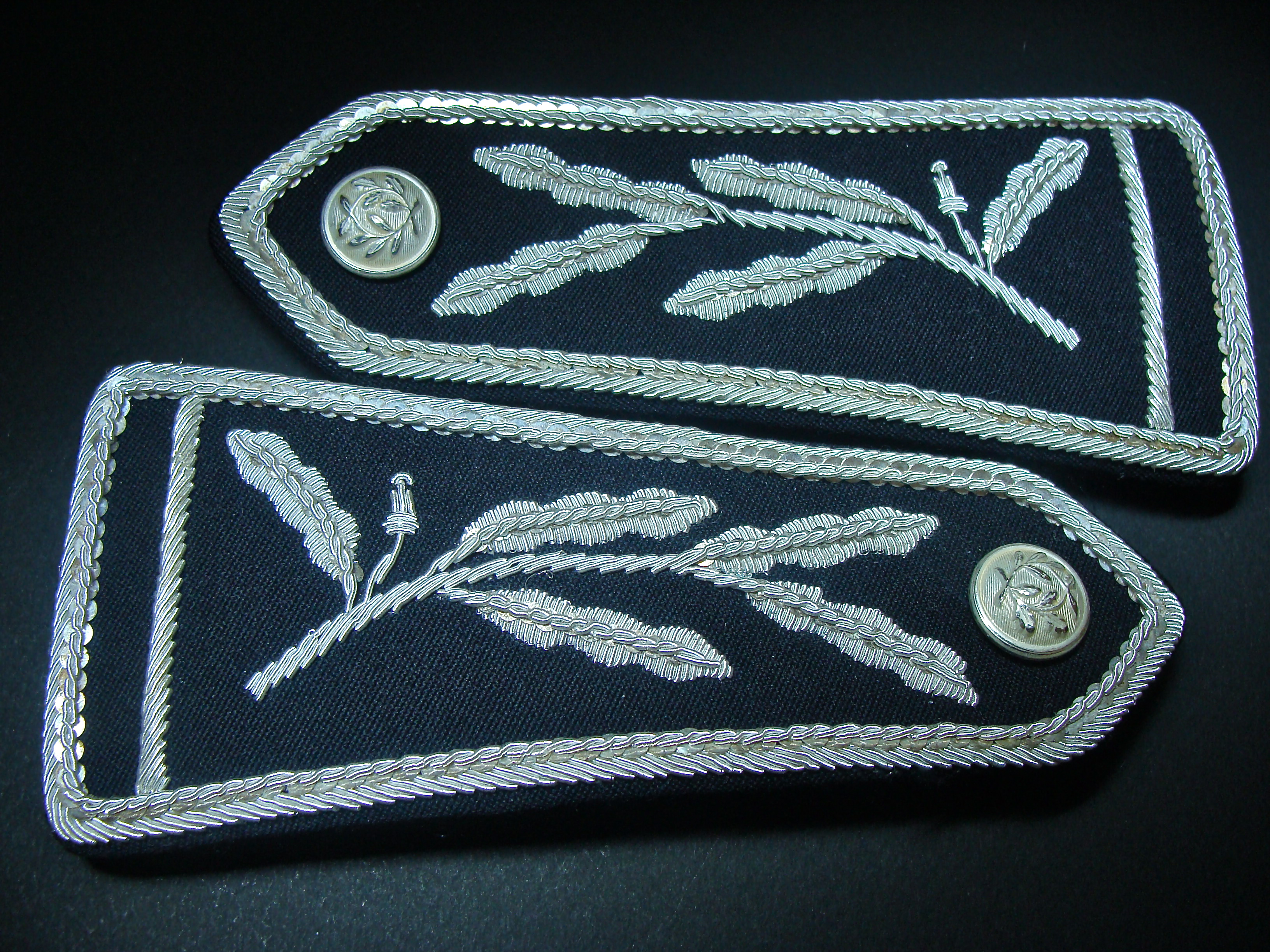 silver hand-embroidered ceremony epaulettes of the former rank of "Commissaire principal" (something like Chief superintendent) in the French Police. This rank does not exist more since 2005. Buttons are in silver.